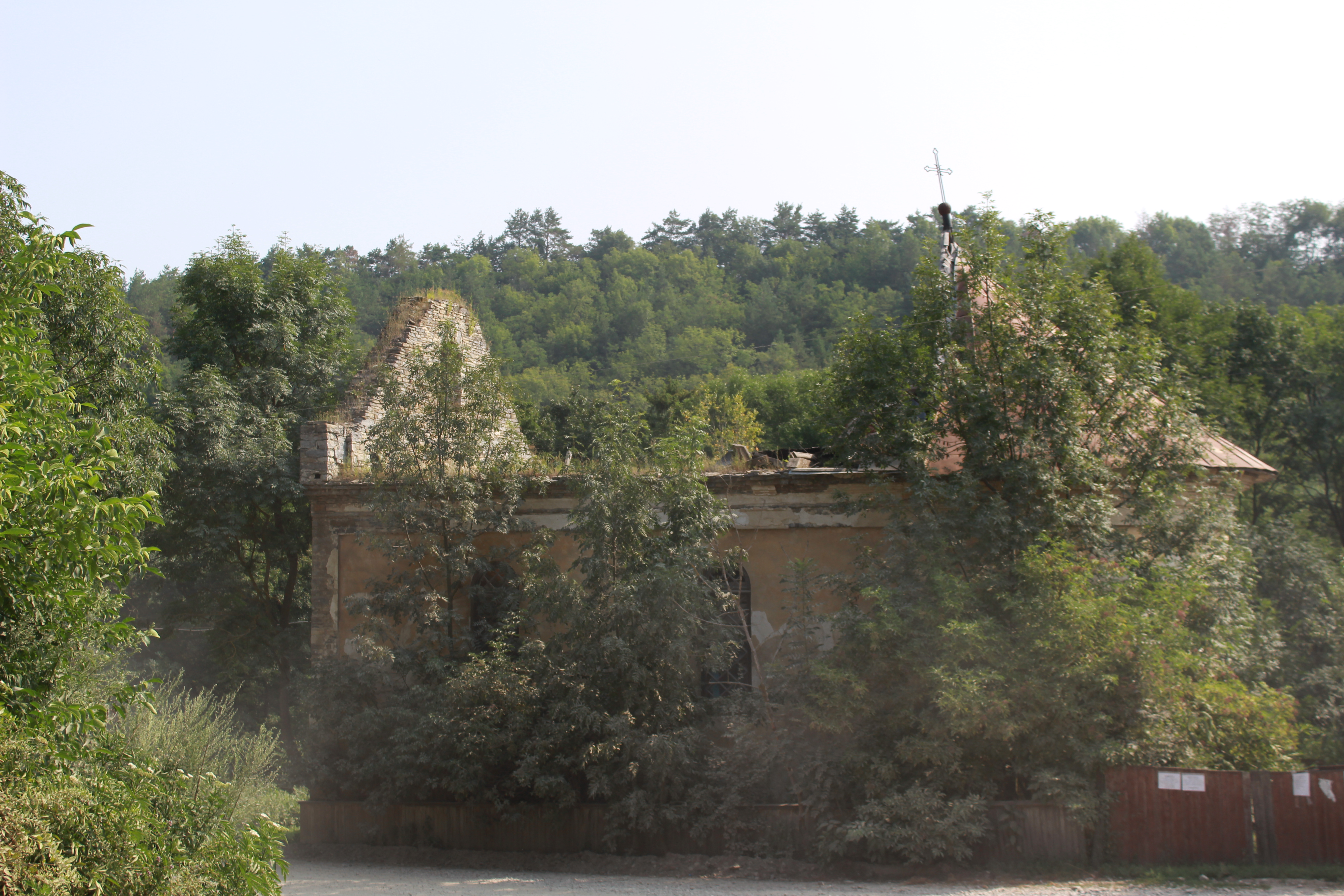 Зруйнований костел в селі Угриньківці, Борщівський район